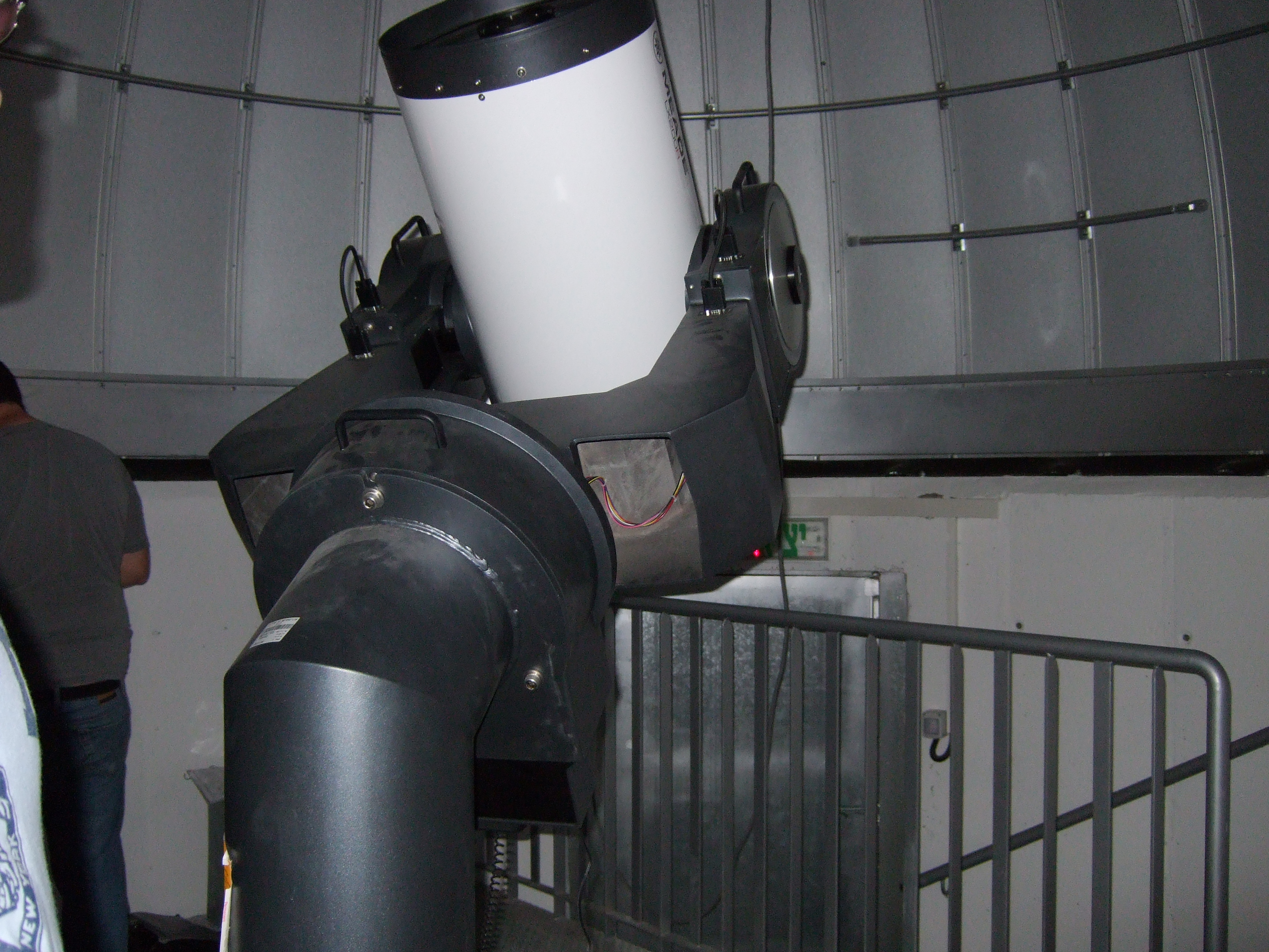 the main telescope at the Ilan Ramon youth physics center